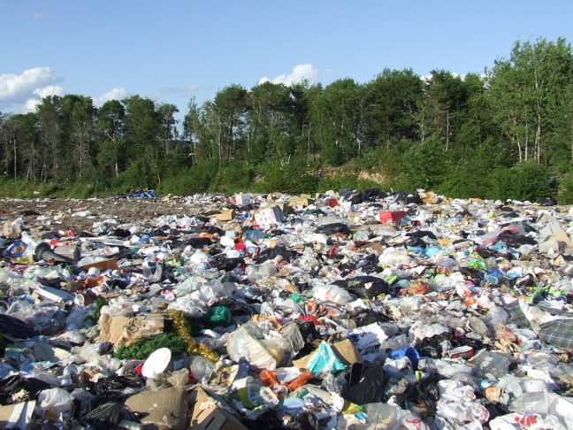 One of Dryden, Ontario's Landfill's. This one is located in Barclay.